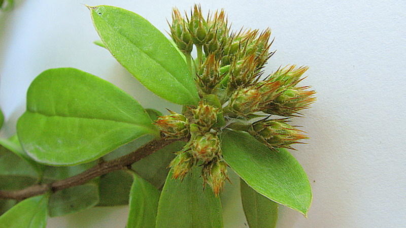 Dasyphyllum brasiliense, Entre Rios, Bahia, Brazil